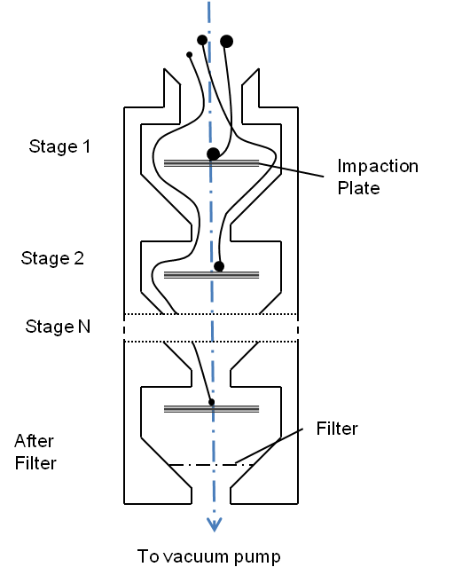 Schematic of cascade impactor